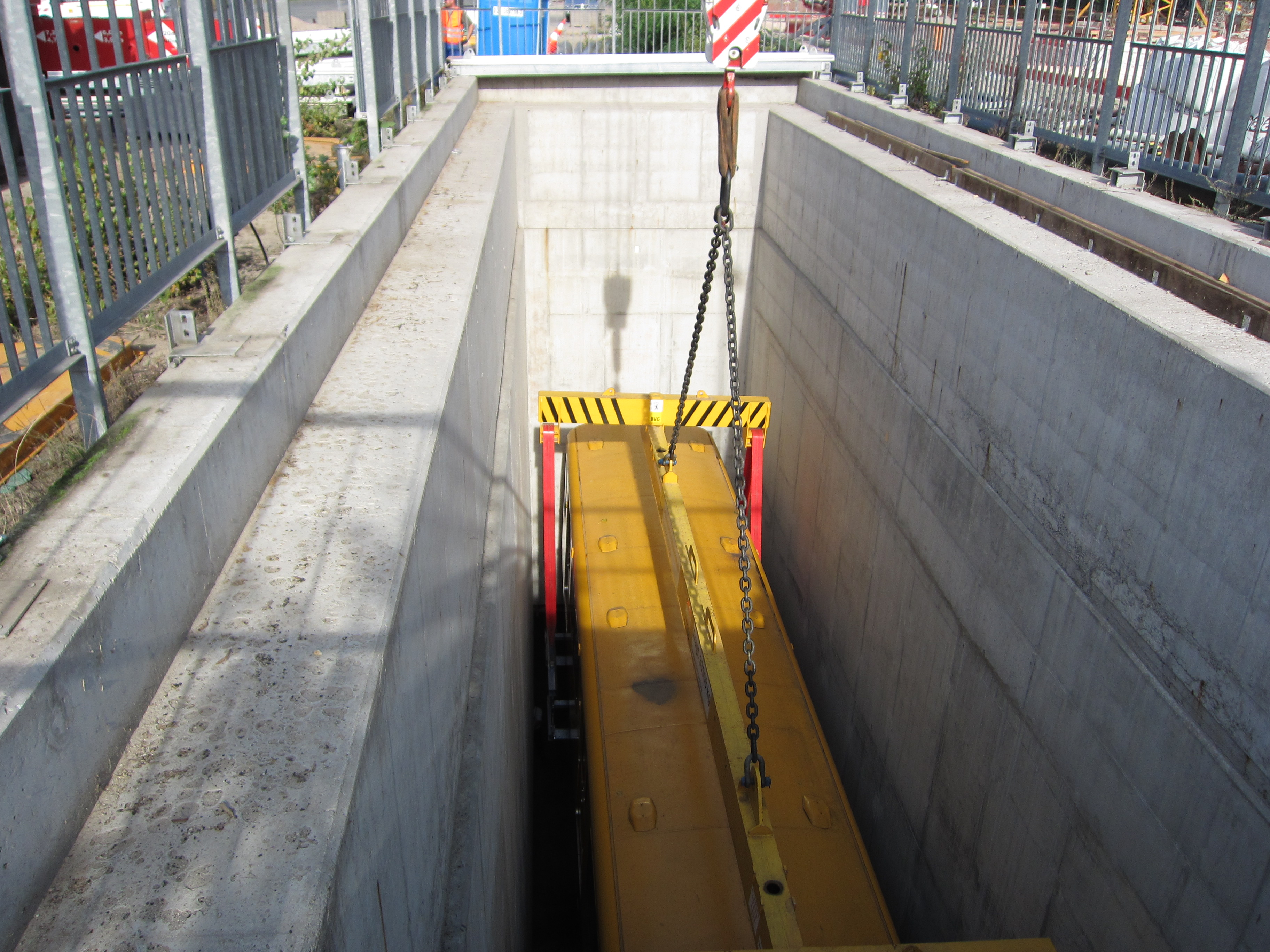 Berlin U-Bahn carriage 2658 of class F79 is inserted in to the tunnel of U55.